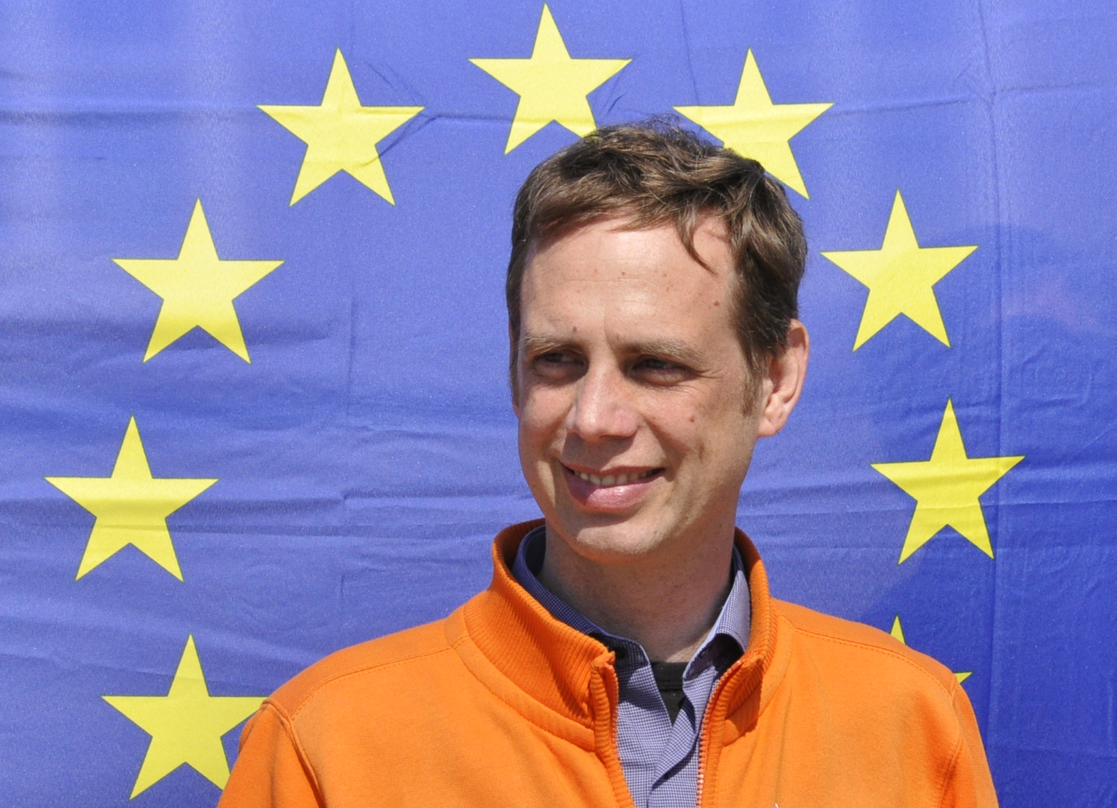 Patrick Breyer. Germany: Niedersachsen, Göttingen. Picture with European flag, was taken in front of the railway station.